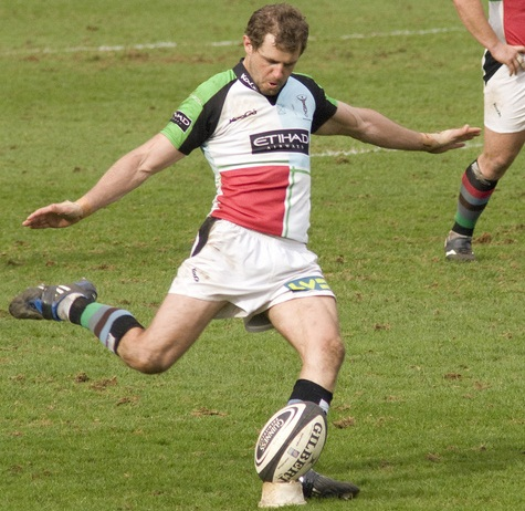 Nick Evans kicking a penalty during the Premiership game Bath Rugby against Harlequins on the 4th of April 2009.